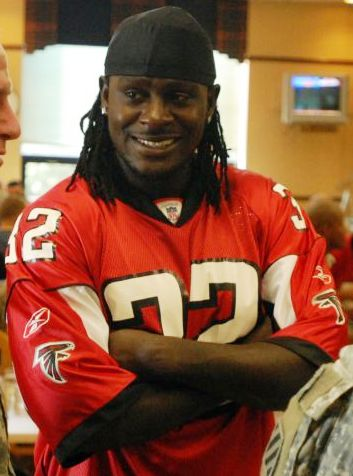 Jerious Norwood, a running back for the Atlanta Falcons, speaks with Col. Pete Jones, the commander of the 3rd Heavy Brigade Combat Team, 3rd Infantry Division (left), and Lt. Col. Robert Ashe, the commander of the 2nd Battalion, 69th Armor Regiment (right), during the Atlanta Falcons visit to Kelley Hill on Fort Benning, Ga., June 8. Ten players and 10 cheerleaders from the Falcon's dance team traveled to Fort Benning to talk with the Soldier's of the 3rd HBCT and sign autographs.